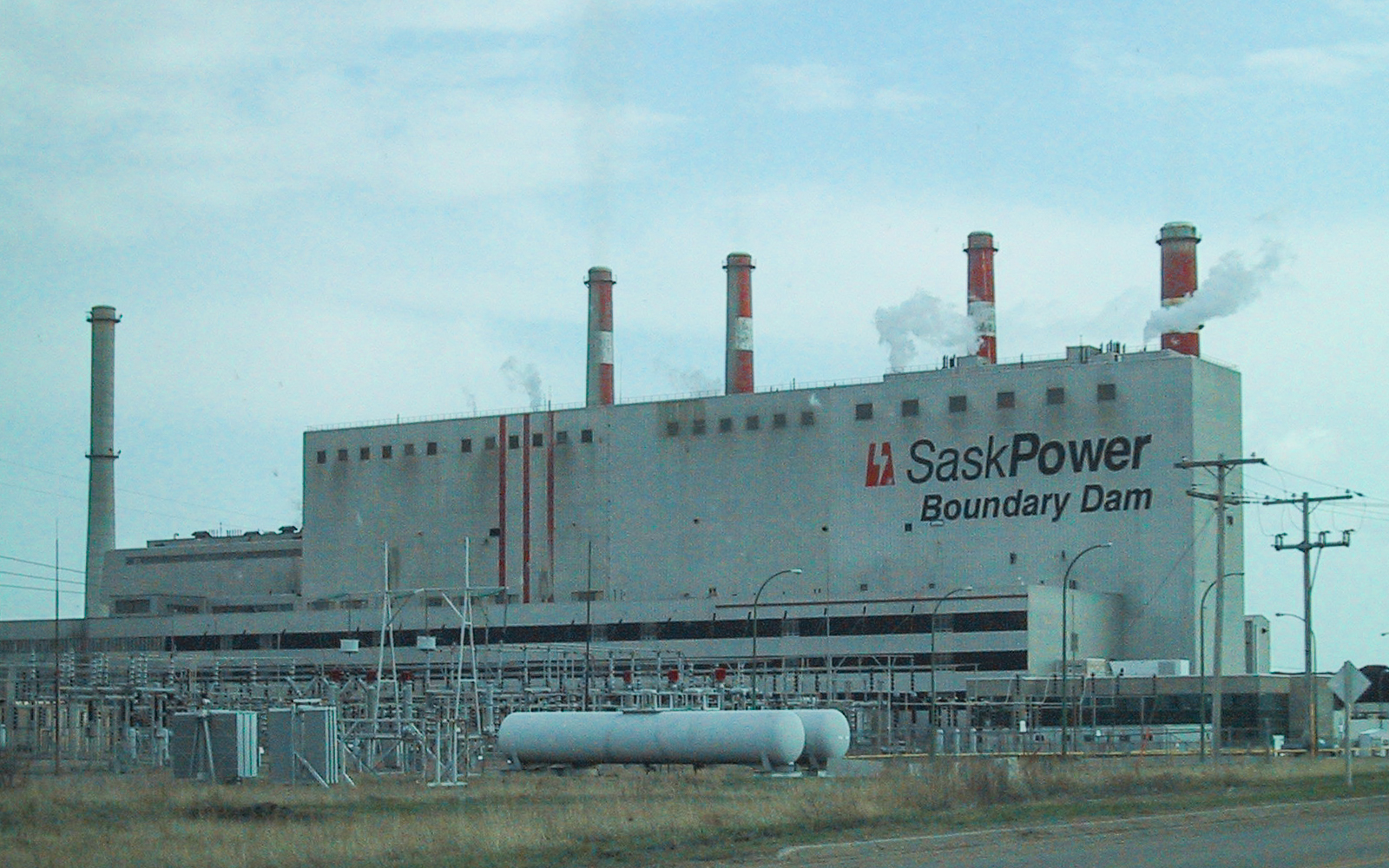 SaskPower Boundary Dam generating station 2008.